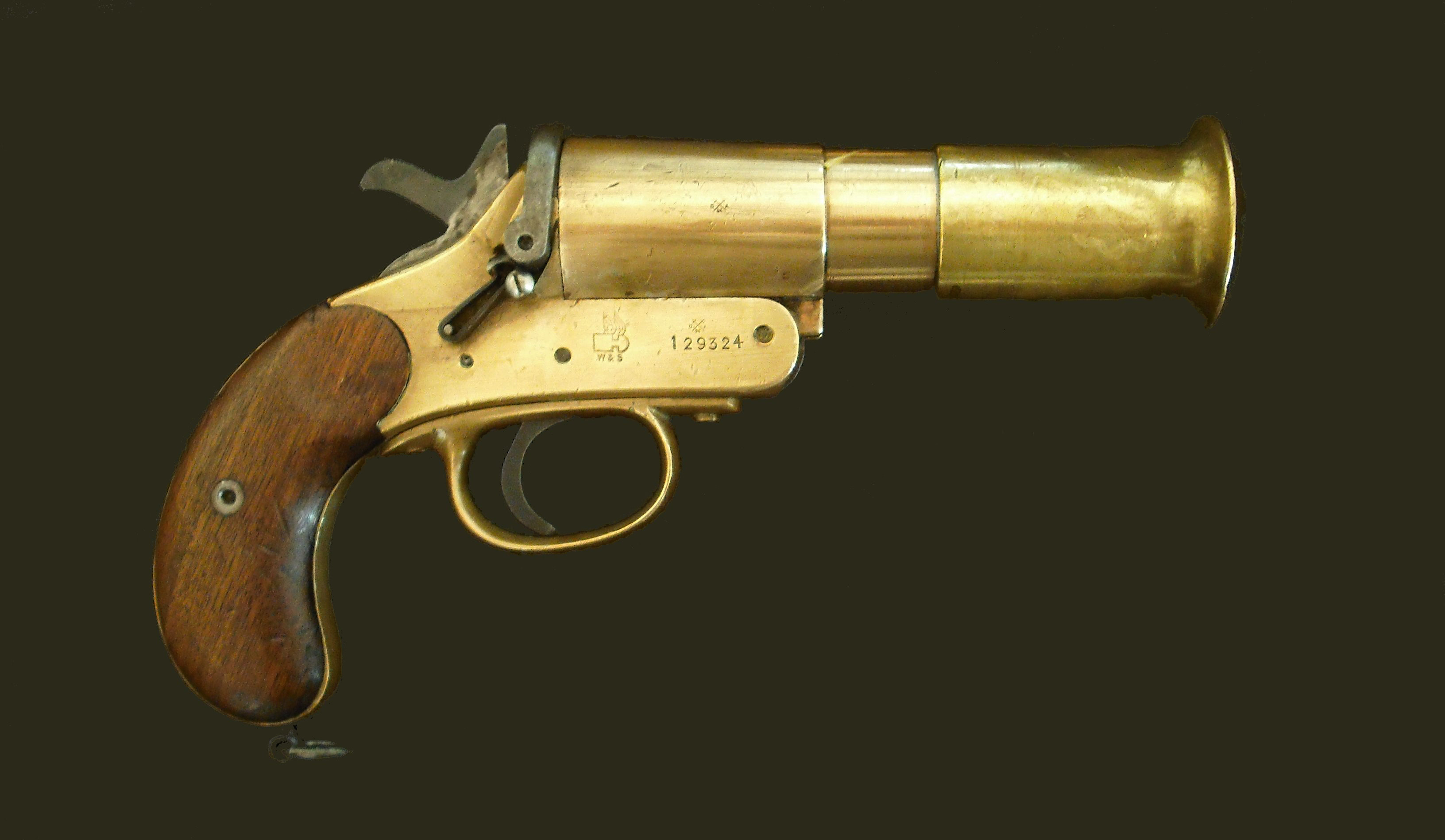 Webley & Scott Mk III flare pistol British Army, dated 1918 1" (25.4mm) calibre